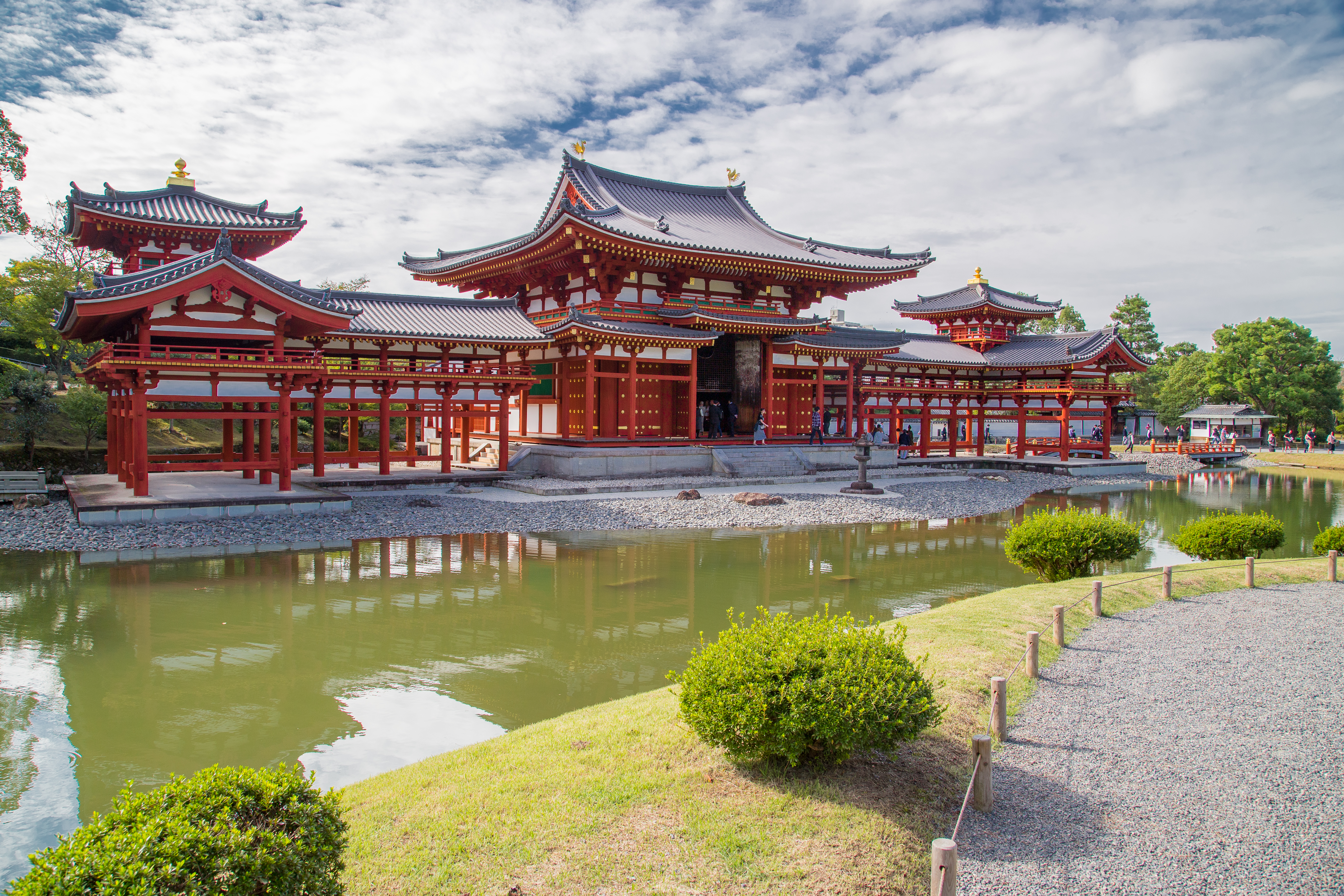 Byōdō-in's Phoenix Hall is a Japan's National Treasure in Uji, Kyoto prefecture, Japan. It was built in 1153. Byōdō-in was registered as part of the UNESCO World Heritage Site "Historic monuments of ancient Kyoto".